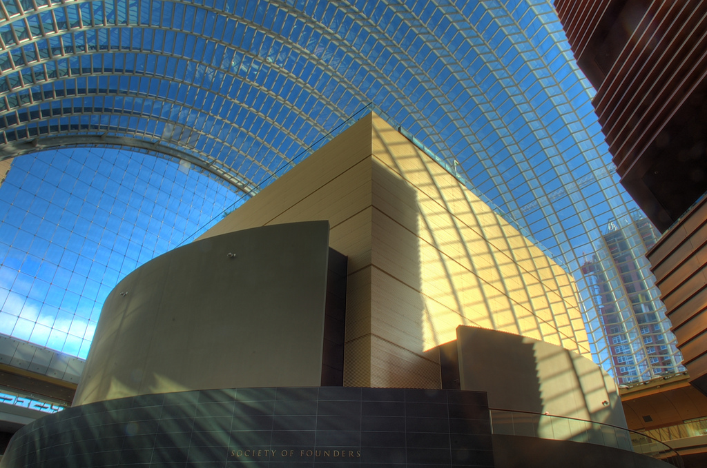 I, Jon Anderson, took this HDR photograph on February 23rd, 2007 from inside the Kimmel Center for Performing Arts in Philadelphia.